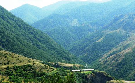 Shamlugh town, Armenia